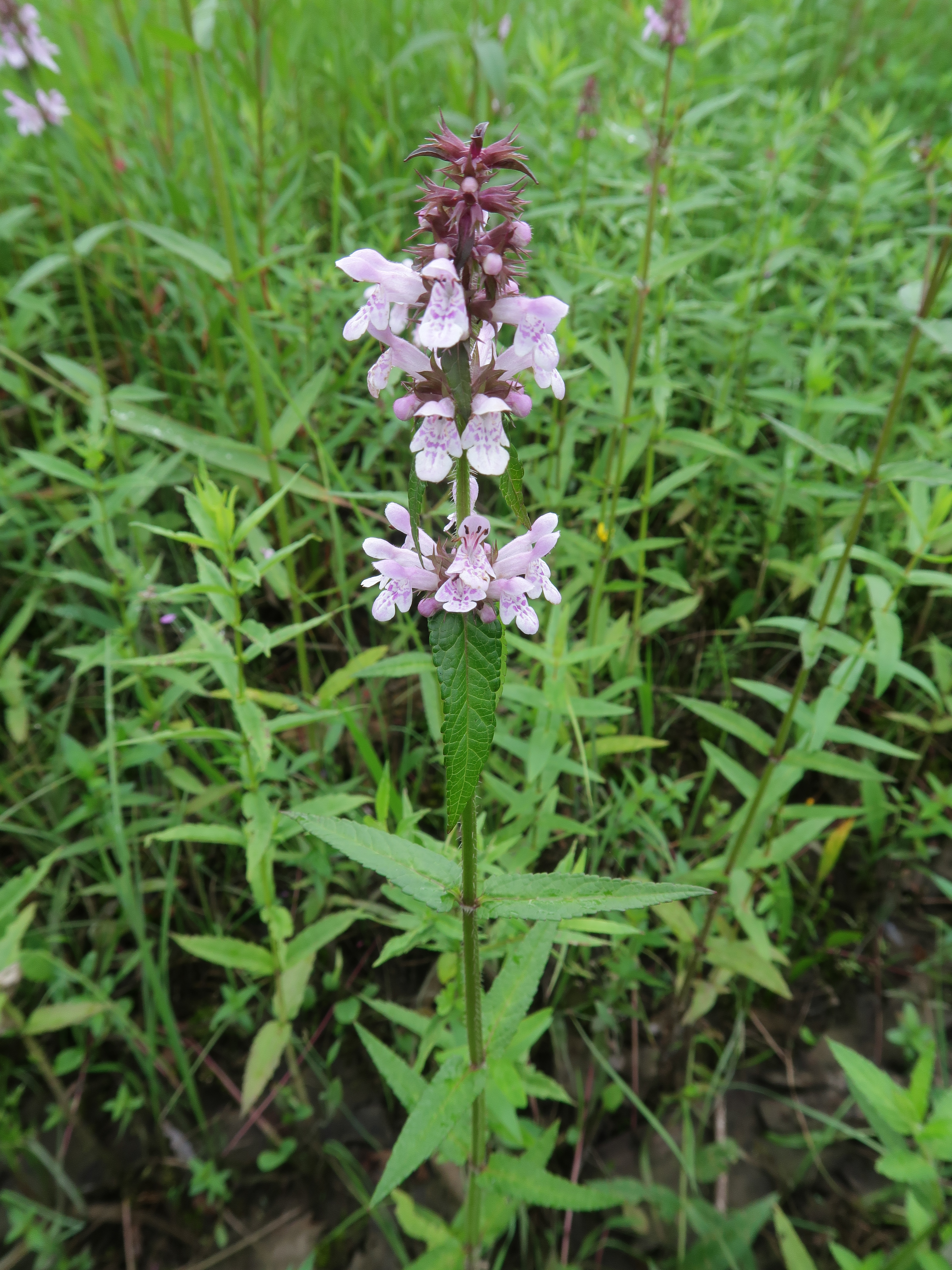 Stachys aspera var. hispidula, Aizu area, Fukushima pref., Japan